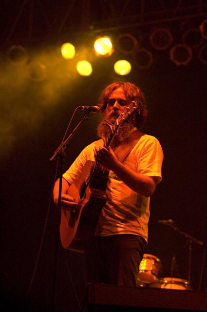 Sam Beam (Iron & Wine) at a 2006 concert at Brooklyn's McCarren Park Pool.